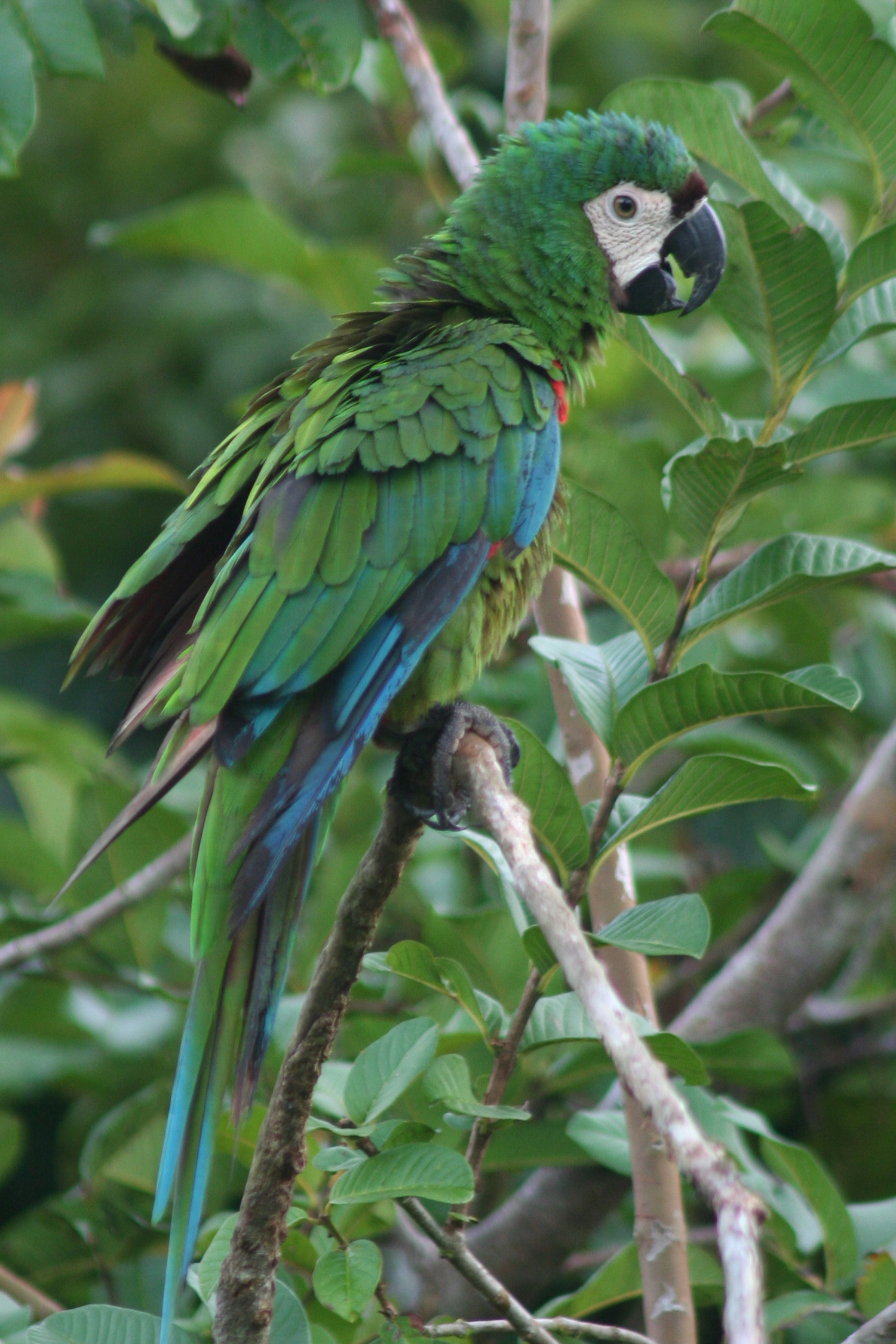 Chestnut-fronted Macaw or Severe Macaw in south Columbia.